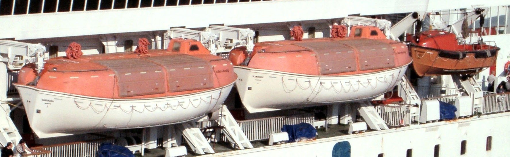 Cropped version of Image:Brosen lifeboats scandinavia.jpg. Lifeboats of FS Scandinavia (Polferries)